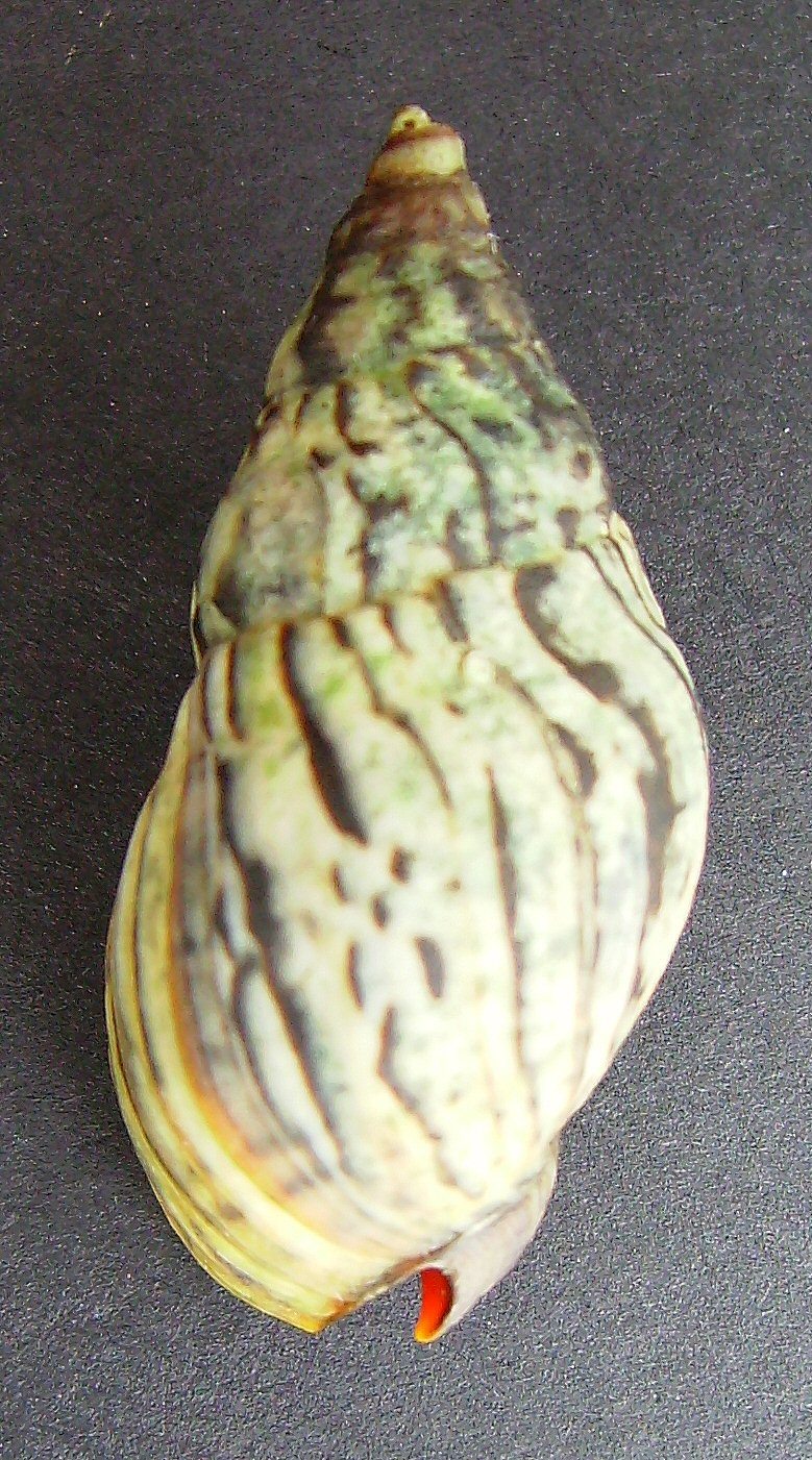 Cominella virgata brookesi from Whangarei Heads, New Zealand. This work has been released into the public domain by its author, Graham Bould. This applies worldwide. In some countries this may not be legally possible; if so: Graham Bould grants anyone the right to use this work for any purpose, without any conditions, unless such conditions are required by law.